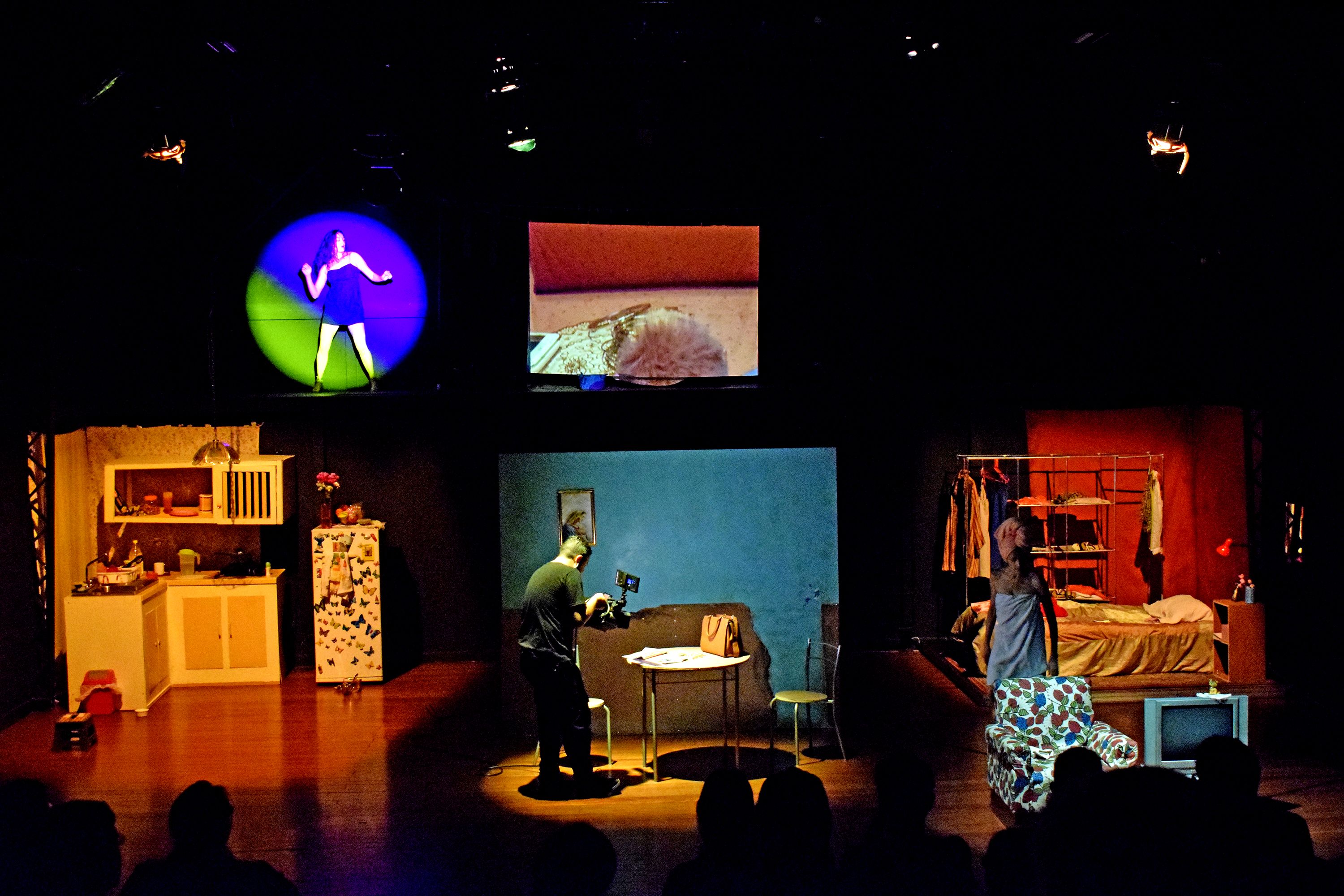 Obra teatral "Caramelo", escrita y dirigida por Natalia Mariño (Costa Rica) para la Temporada del Teatro Universitario 2018, Universidad de Costa Rica.